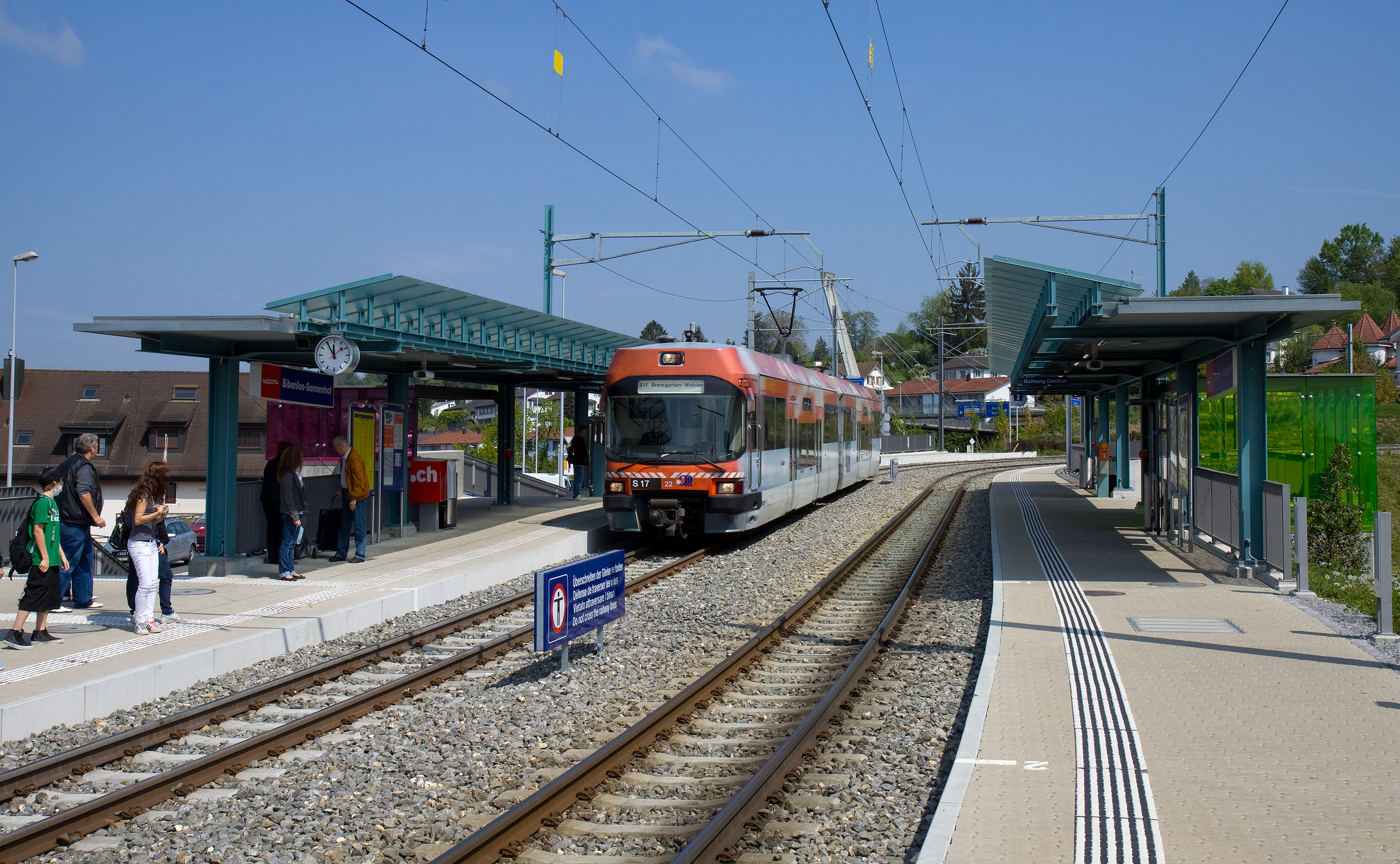 Bremgarten-Dietikon-Bahn train type Be 4/8 at the Bibenlos-Sonnenhof stop